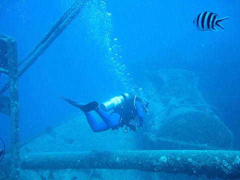 Diving the SS Thistlegorm, Sharm El Sheikh, South Sinai, Red Sea, Egypt